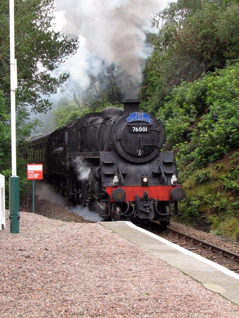 "The Jacobite" approaching Beasdale Station. Heading for Mallaig "The Jacobite" accelerates off the bank.